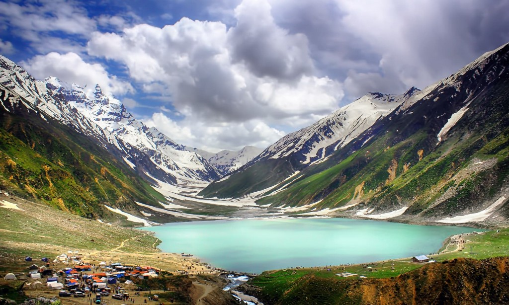 A famous tourist resort known for its history related to Prince Saiful malook one of the highest alpine lakes of pakistan